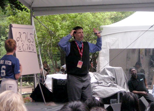 Mathemagician Arthur T. Benjamin performing at the Street Fair during the 2008 World Science Festival